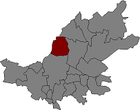 Location of Figuerola del Camp in Alt Camp